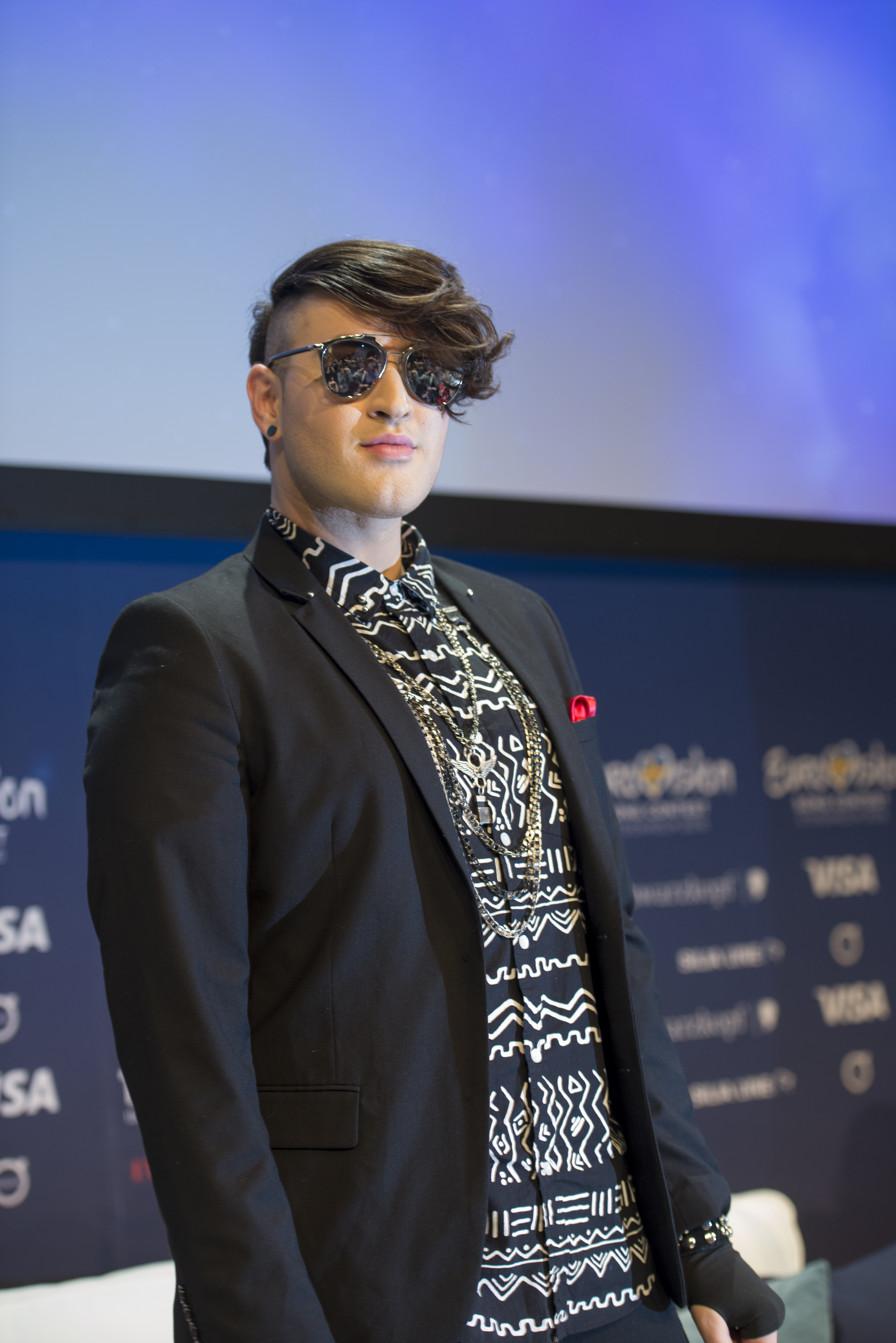 Hovi Star at a Meet & Greet during the Eurovision Song Contest 2016 in Stockholm. (Help translate this text)